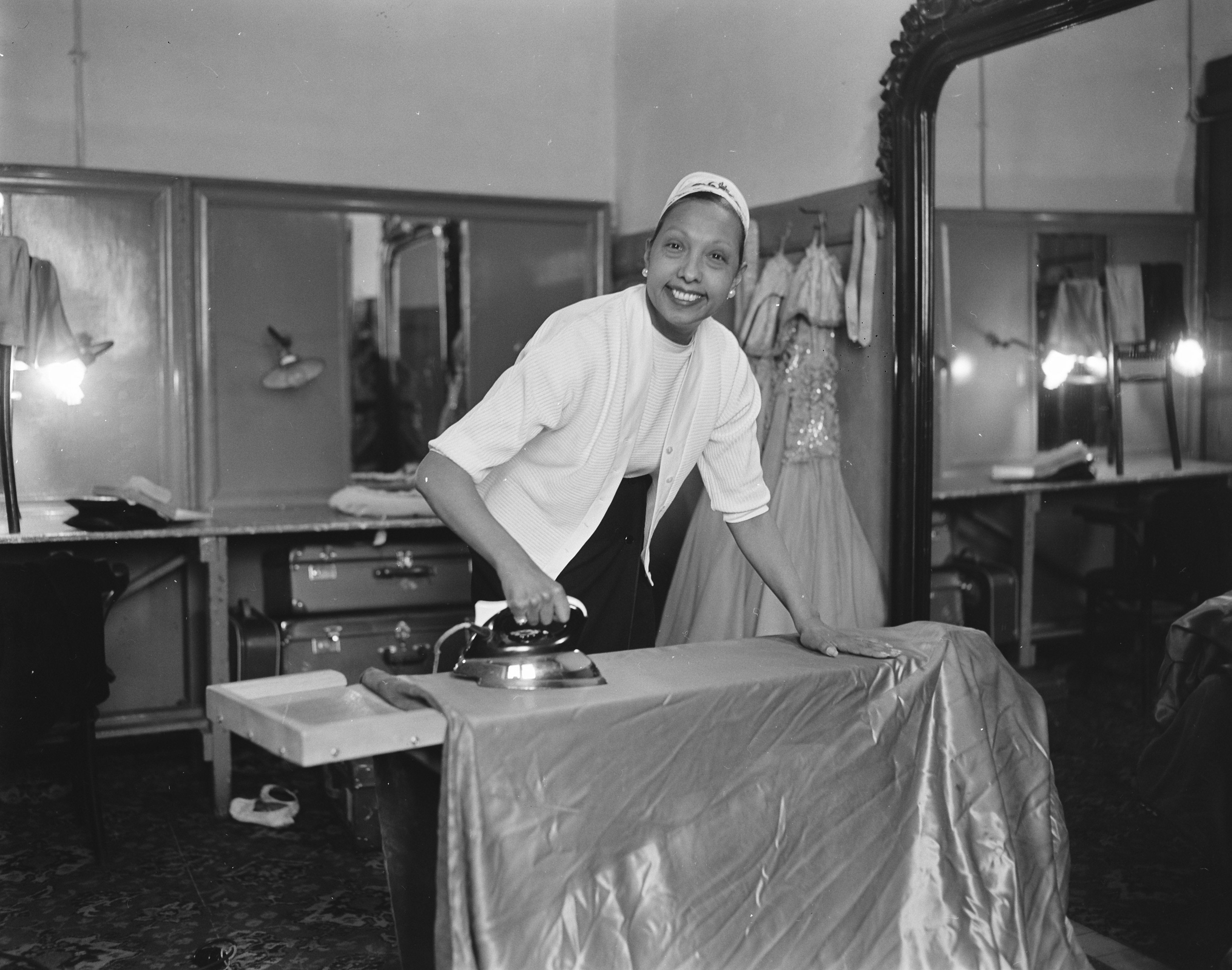 Josephine Baker ironing. Amsterdam (The Netherlands), 1956